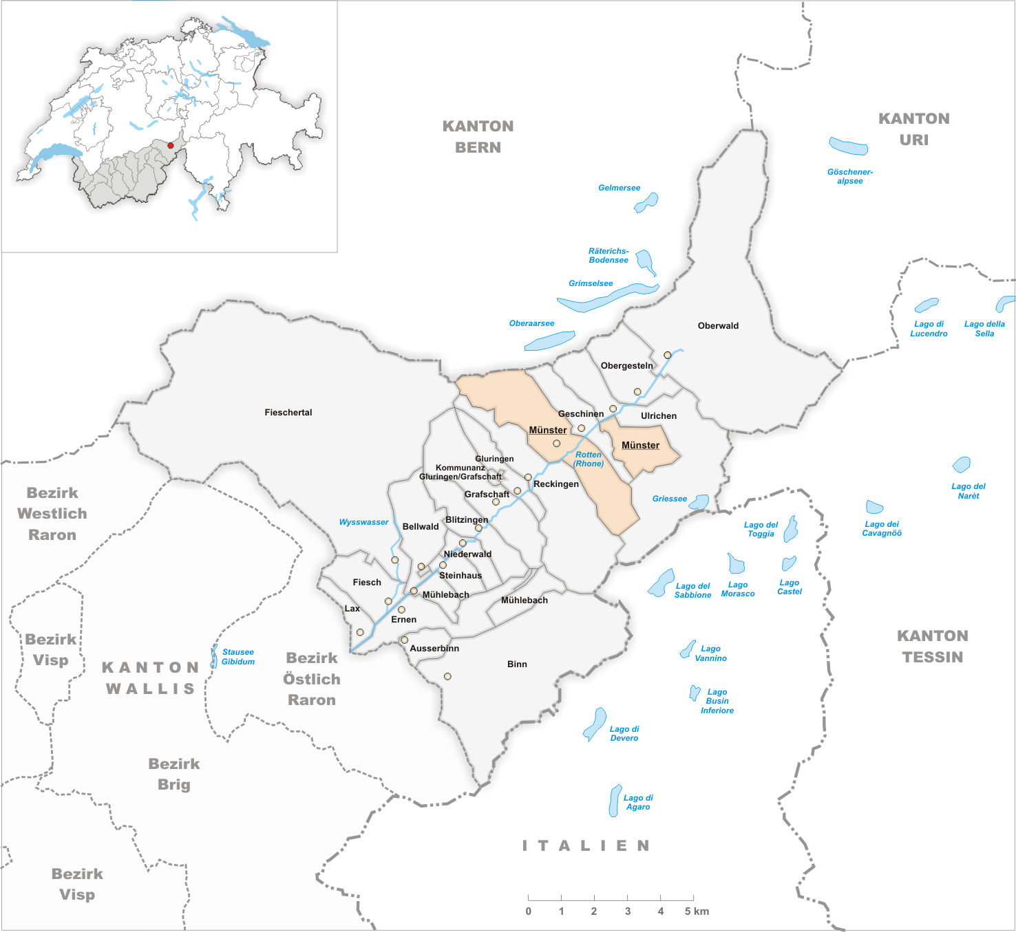 Municipality Münster